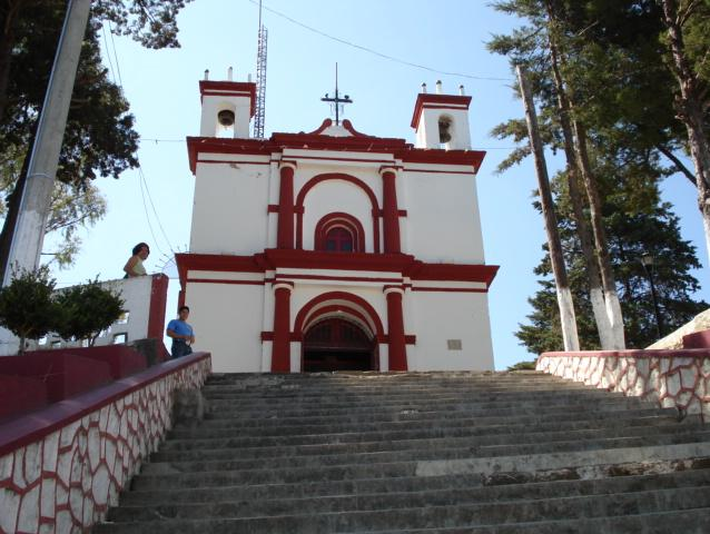 iglesia de san cristobal de las casas, chiapas